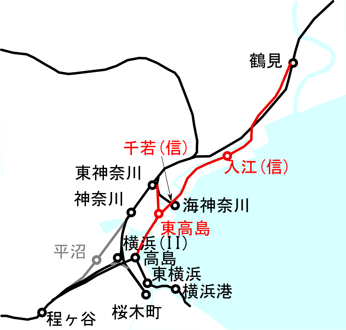 Railway route map around Yokohama port in 1924. New lines / stations since previous map are shown in red. Not changed lines / stations are shown in black. Disused lines / stations are shown in gray. Only national railway network is shown in this map. Dedicated freight line from Tsurumi to Takashima was opened. Freight line from Higashi-Kanagawa to Takashima was also opened.